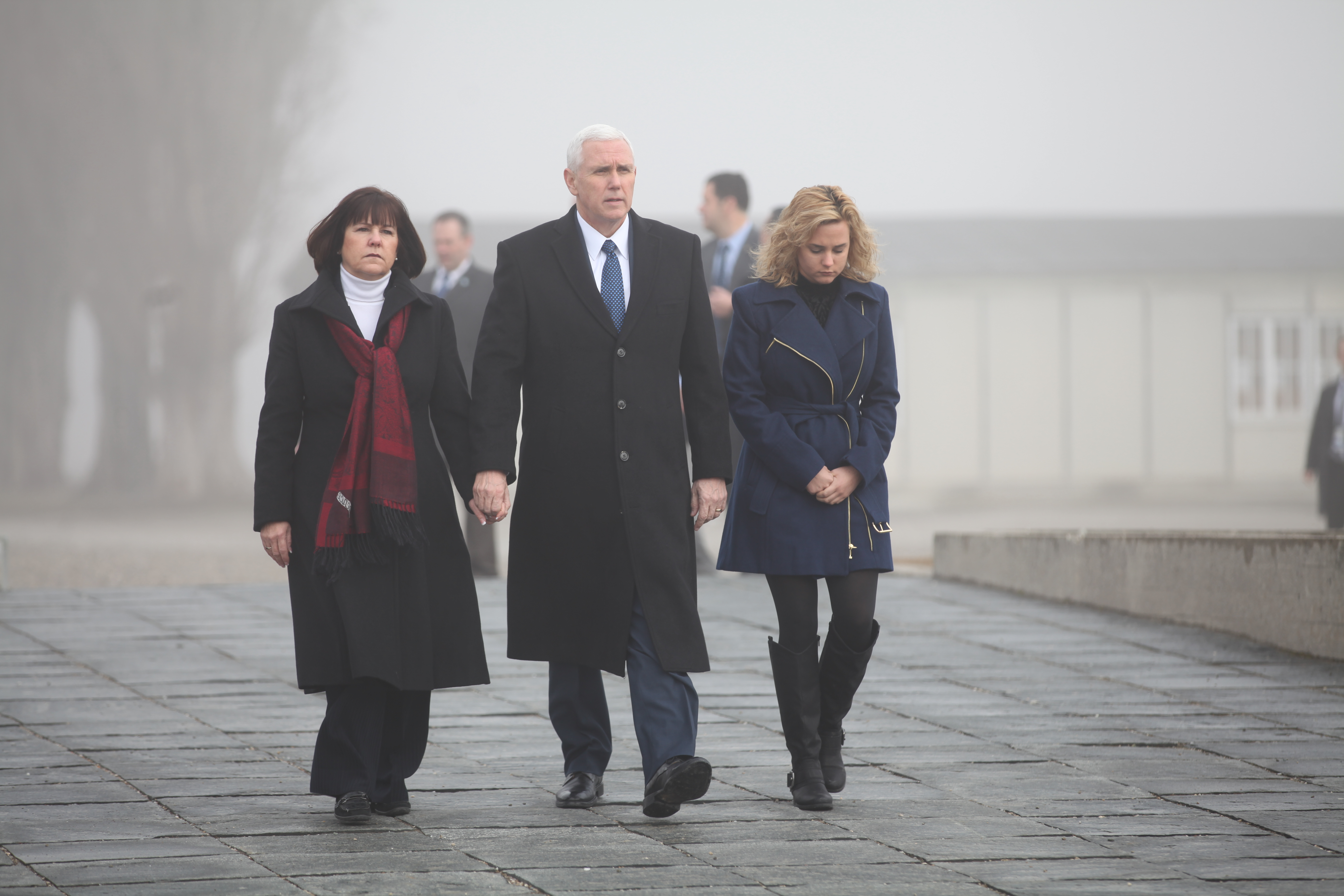 US Vice President Mike Pence, and Second Lady Karen Pence, tours Dachau Concentration Camp Memorial in Germany on February 19, 2017.